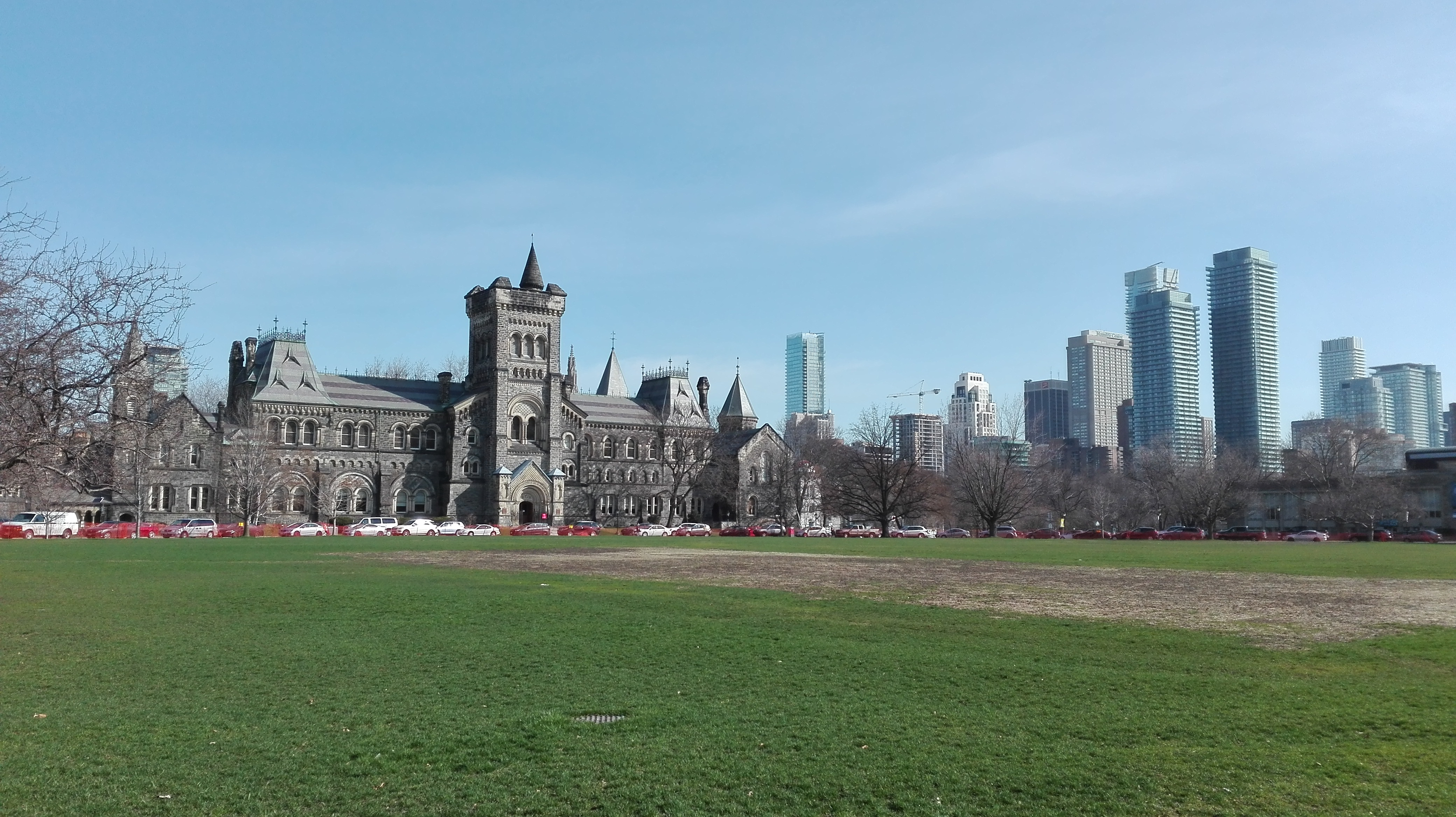 University College, University of Toronto, 15 King's College Circle Toronto